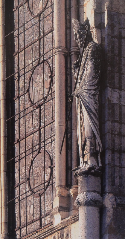 Saint-Remi statue on facade of Basilique Saint-Remi de Reims